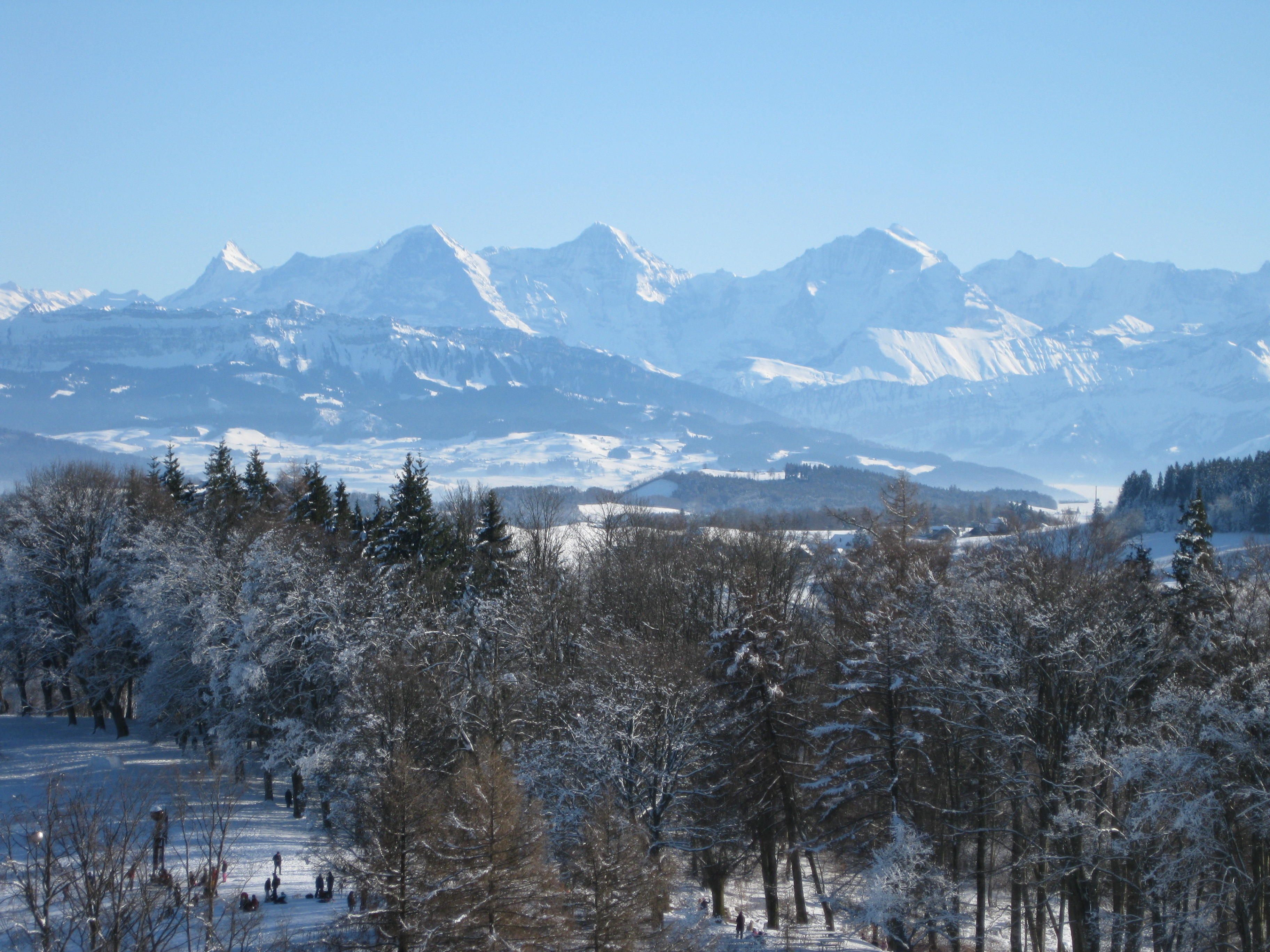 View from Gurten mountain on Alpine panorama with Eiger, Mönch, Jungfrau